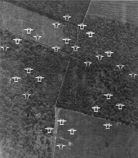 P-38 Lightnings from the 20th Fighter Group in formation over France, 29 June 1944